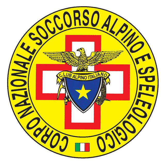 Coat of arms of Corpo Nazionale di Soccorso Alpino e Speleologico. Is the coat of arms of Club Alpino Italiano in yellow and some simple geometric shape